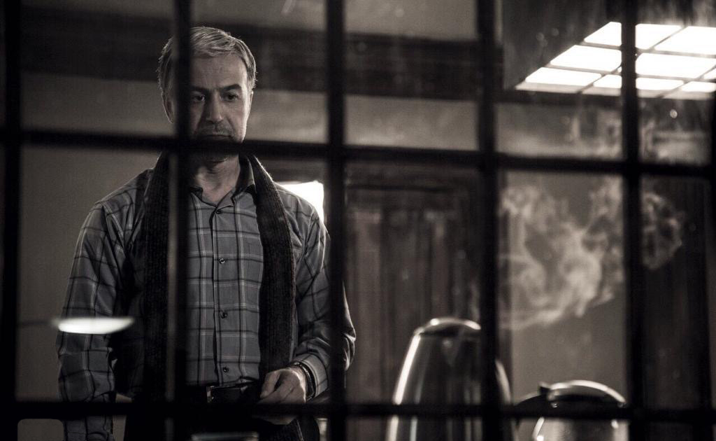 Danial Hakimi as role of Nader